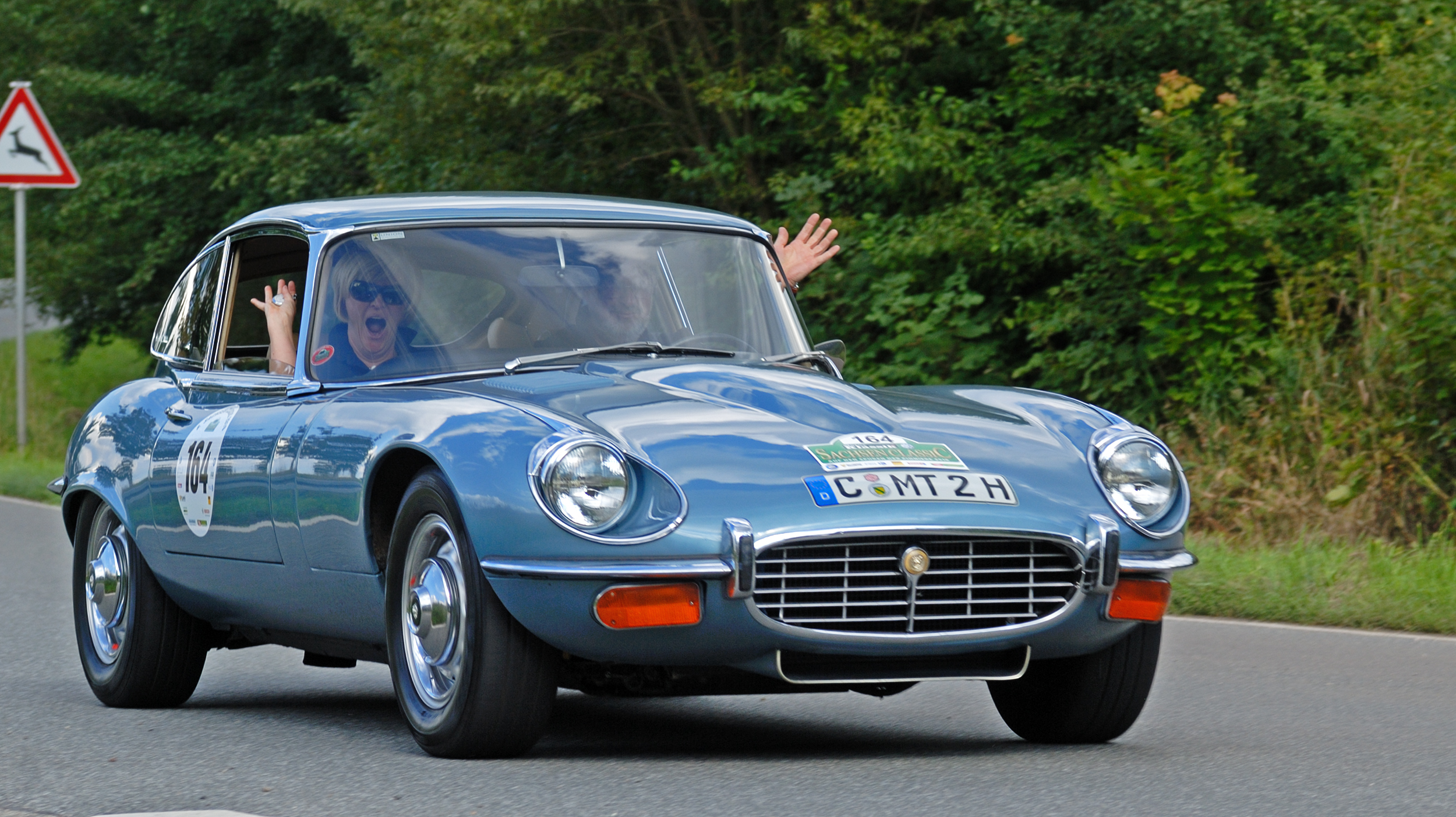 Jaguar E-Type Serie 3 from 1972 during the Saxony Classic Rallye 2010.